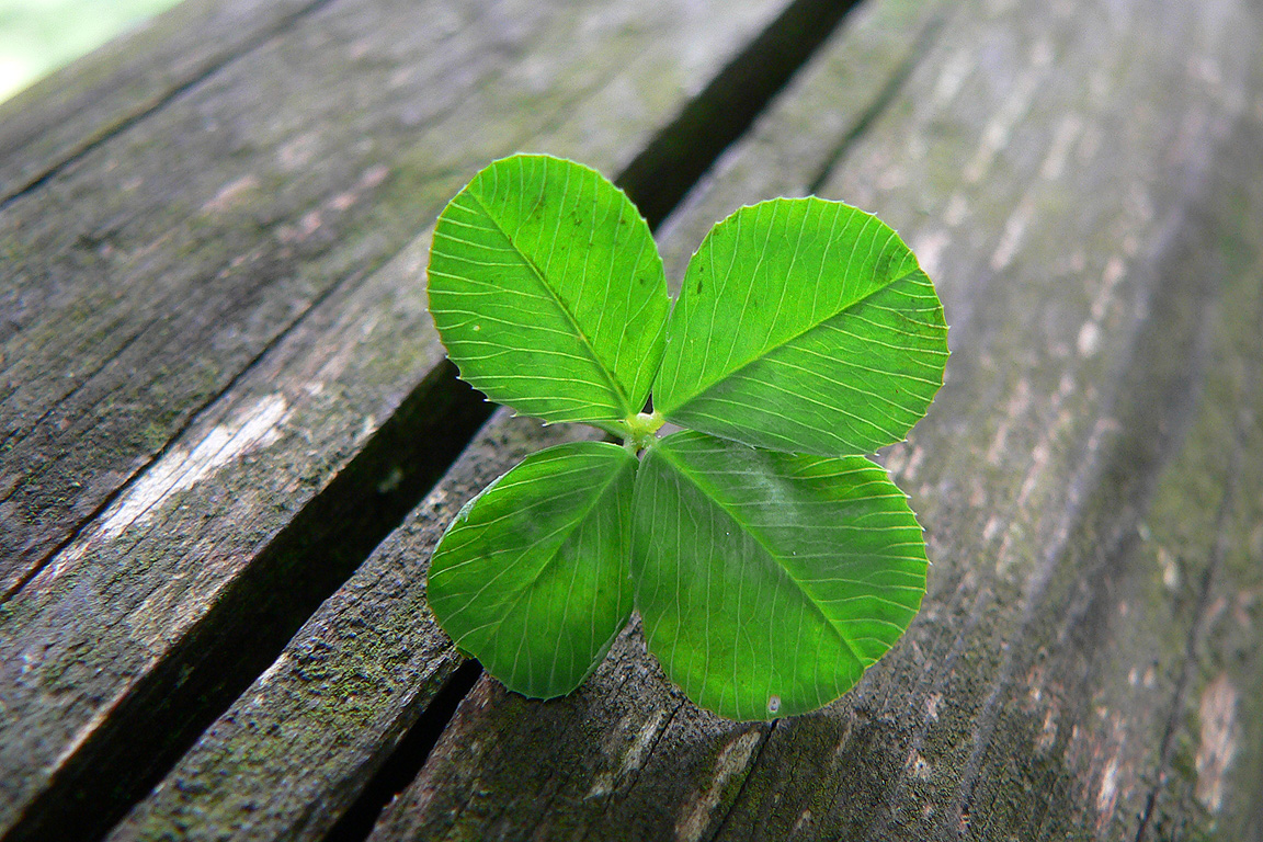 I found it yesterday (Trifolium repens) and this is the real clover, often confused with the Oxalis, another plant that usually has 3 leaves but with a species that has naturally 4 (Oxalis tetraphylla). It is calculated 1 four leaf cloverf every 10,000. View On Black.